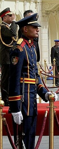 Vladimir Putin met with President of the Arab Republic of Egypt Abdel Fattah el-Sisi at the Al-Qubba Palace in Tahrir Square, Cairo.